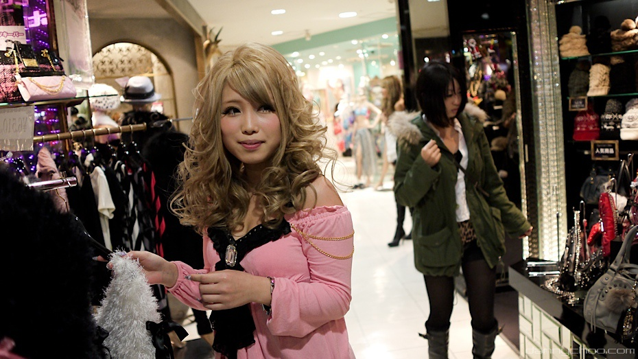 The first Gal is my fave with lovely curly blonde hair, shoulders peeking through her top, net stockings and furry bits on her knee height boots.